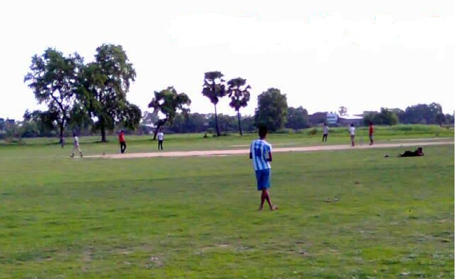 The sugarcane ground is now used to host sports events at the block level.